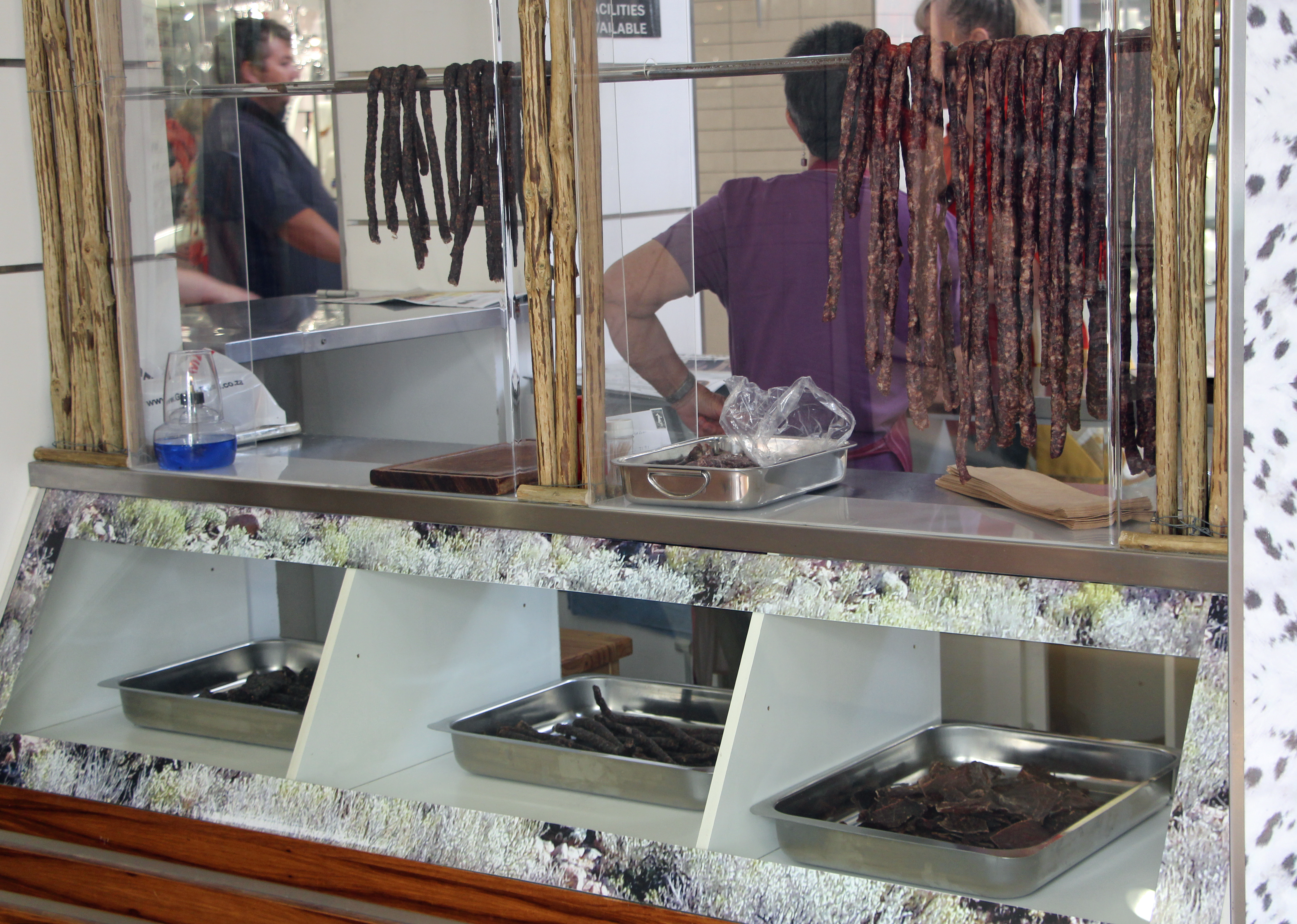 Droëwors (dried sausage) and biltong (dried meat) for sale at a biltong stand in Somerset Mall, South Africa